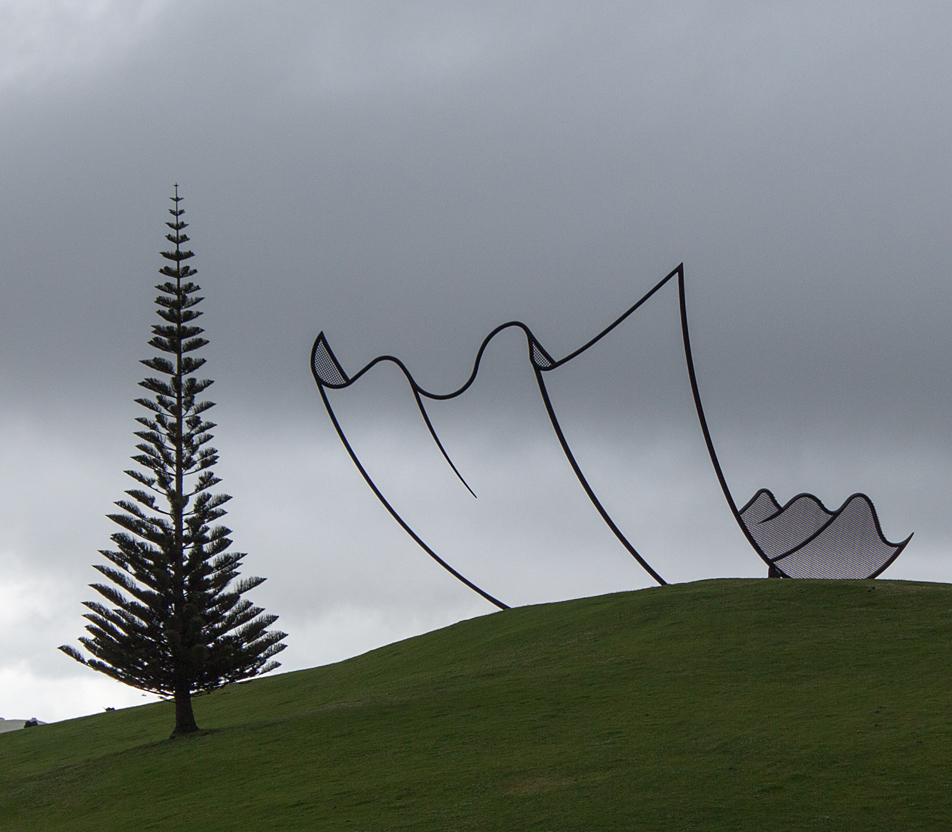 Taken at Alan Gibbs Farm, Kumeu. The sculpture is 'Horizons' by Neil Dawson. I absolutely love this artwork, from the right angle it's exactly as if someone had come along with a giant pen and drawn a cartoon onto the landscape.